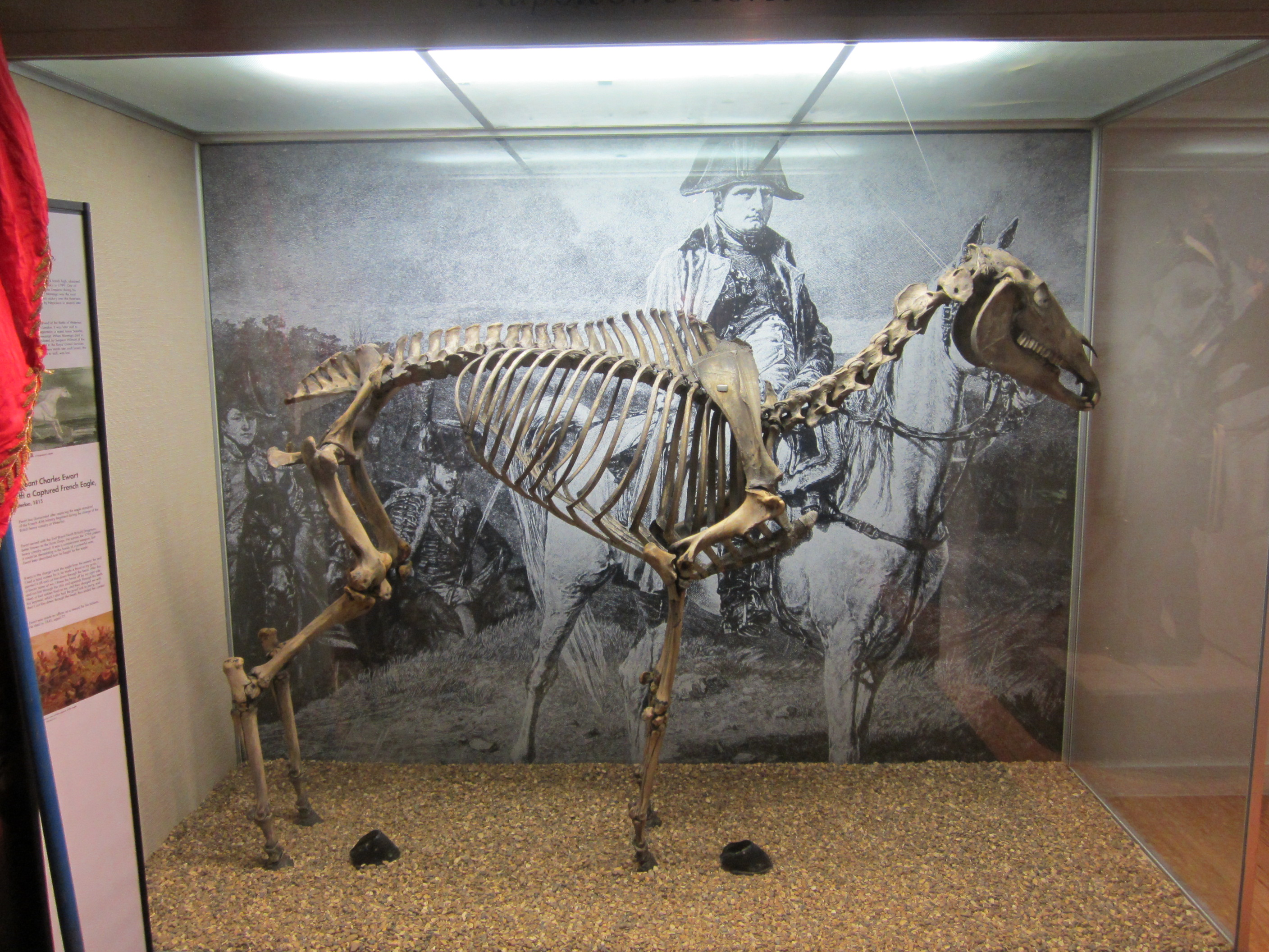 The skeleton of Napoleon's horse Marengo on display at the National Army Museum in London